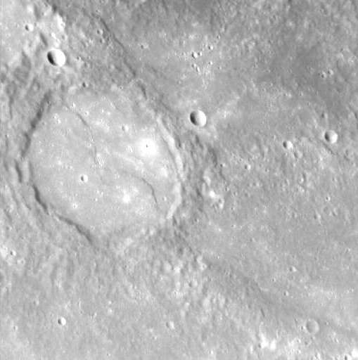 Oblique view of Ruysch crater (left of center) on Mercury. MESSENGER Narrow Angle Camera image. Approximate north is at top. Width is about 147 km. Emission Angle: 29.9 Incidence Angle: 61.6 Latitude: -11.1 Longitude: 94.8 Phase Angle: 36.7